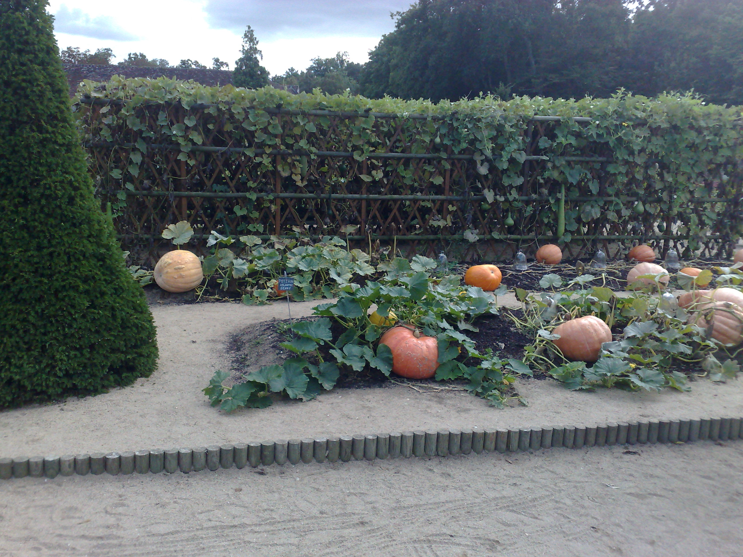 Château de Chenonceau, vegetables, 09.2008